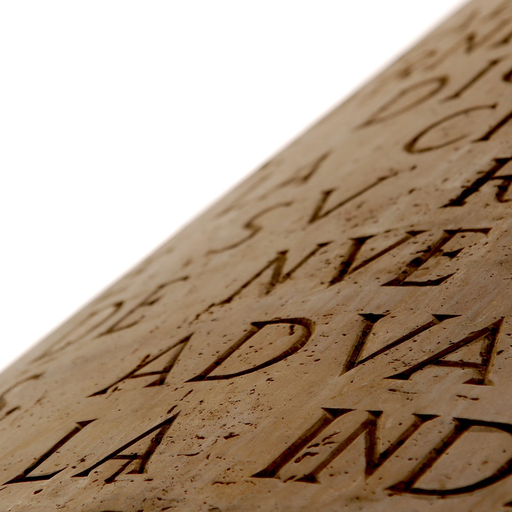 Detail of the inscriptions on the pedestal of the Monument to Charles III of Spain (1716–1788) at the Puerta del Sol (square) in Madrid.